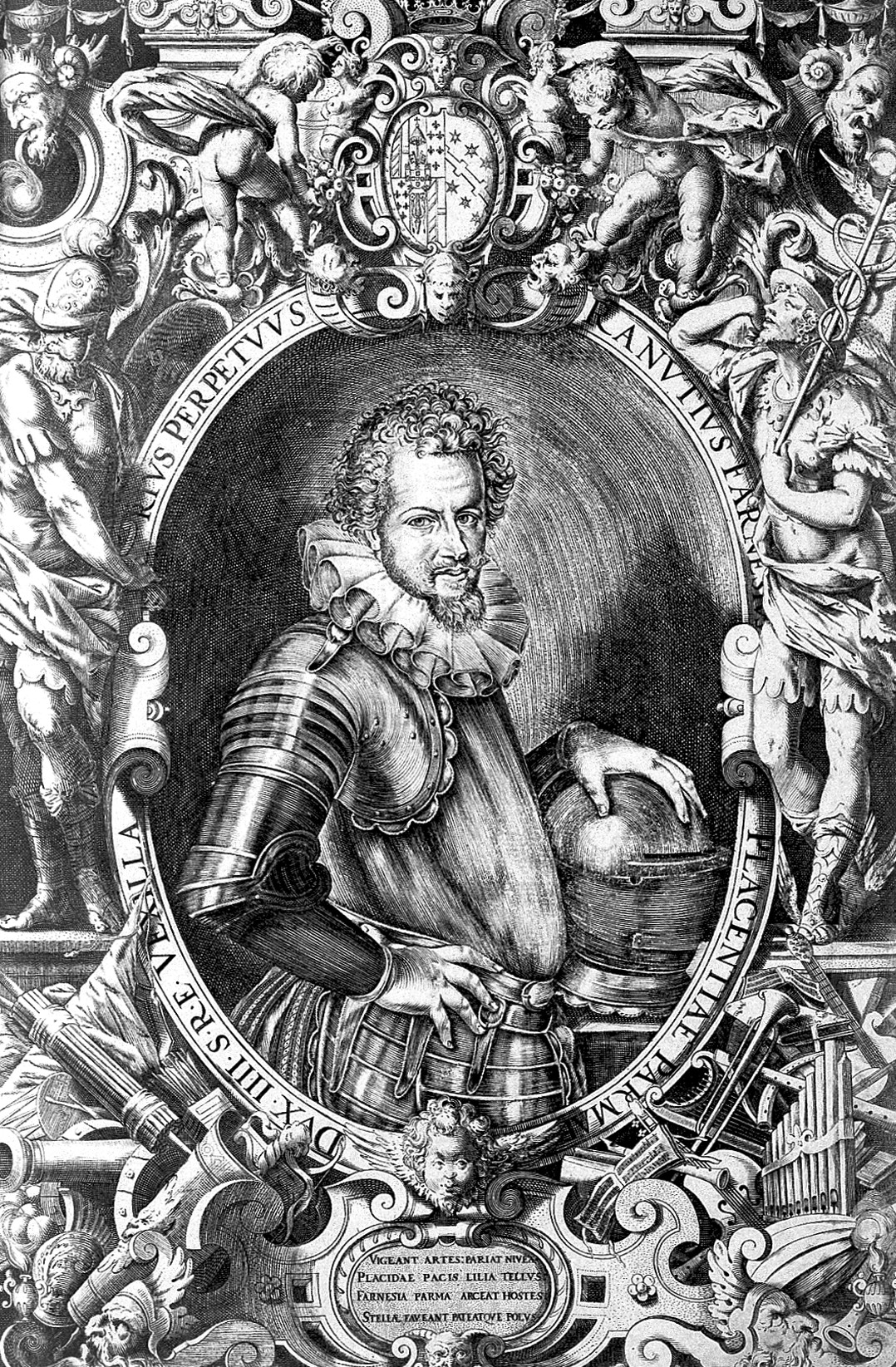 Portrait of Ranuccio Farnese, Duke of Parma Rare Books Keywords: Placentinus Julius Casserius; Ranuccio Farnese